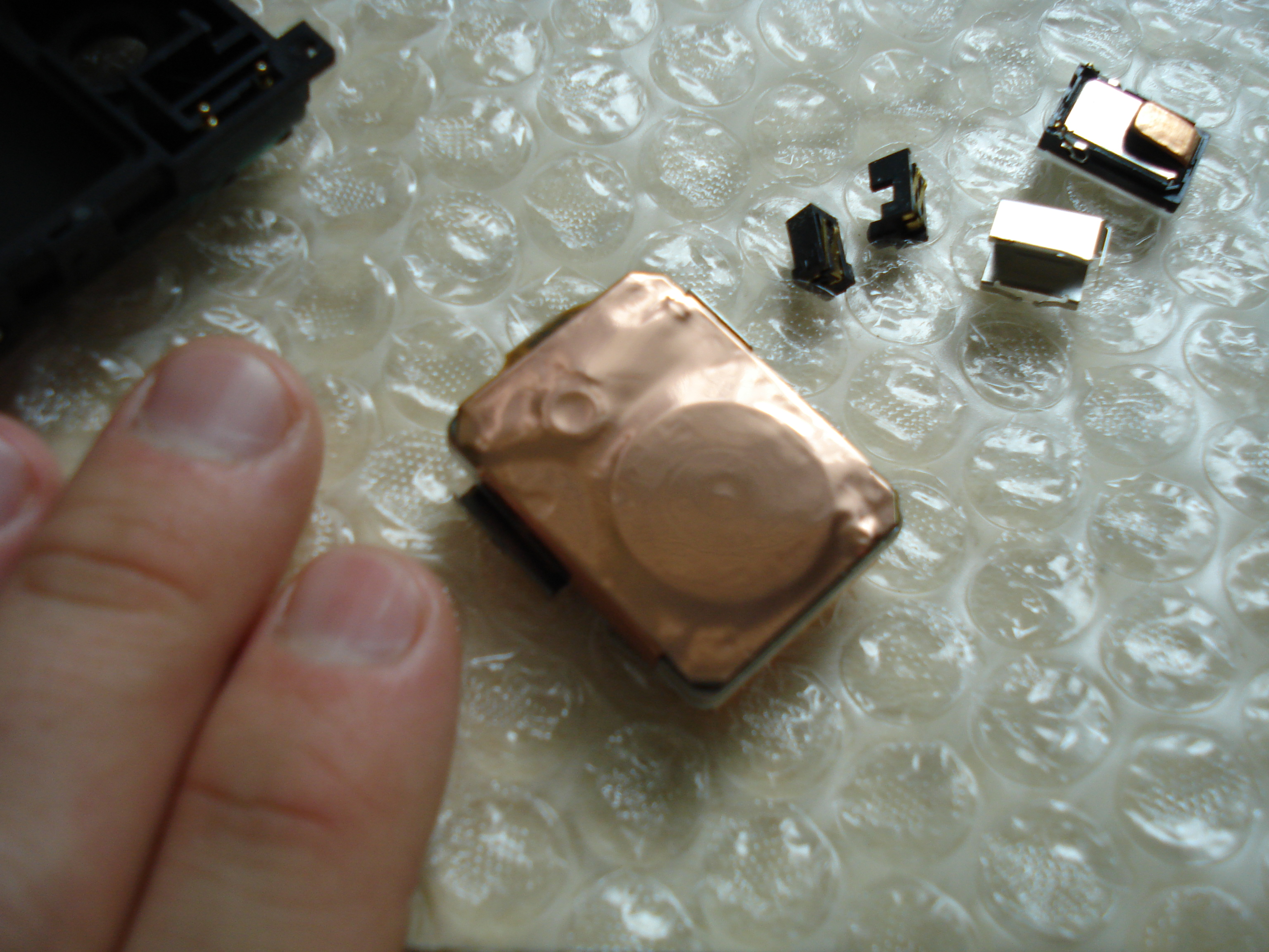 HDD from Nokia N91